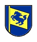 Coat of Arms of Lüerdissen